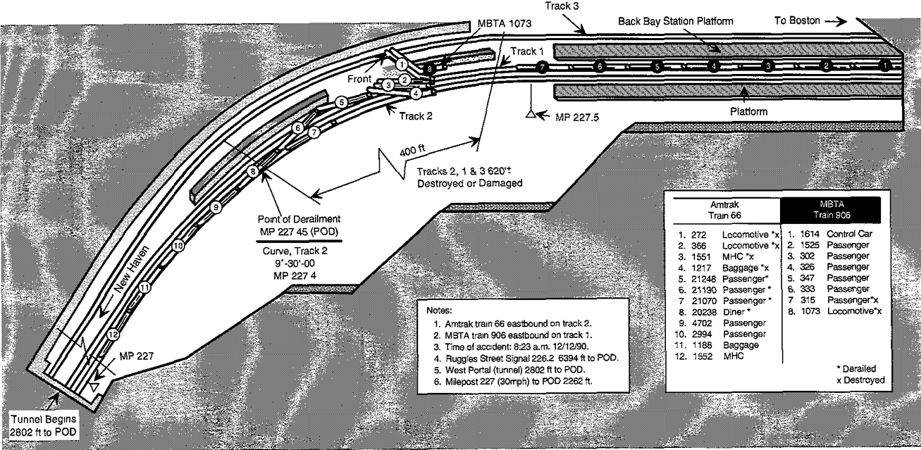 NTSB diagram of the 1990 Back Bay rail accident.